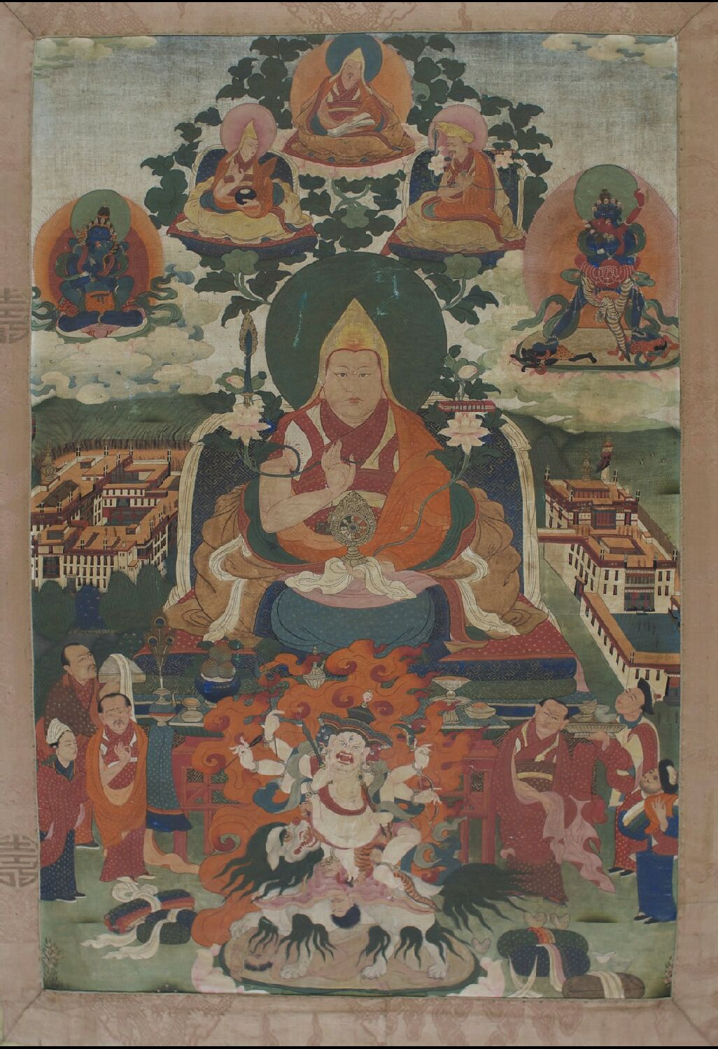 Kundeling Incarnation Lineage - Gyaltsab Yeshe Lobzang Tanpa'i Gonpo, the 8th Tatsag.